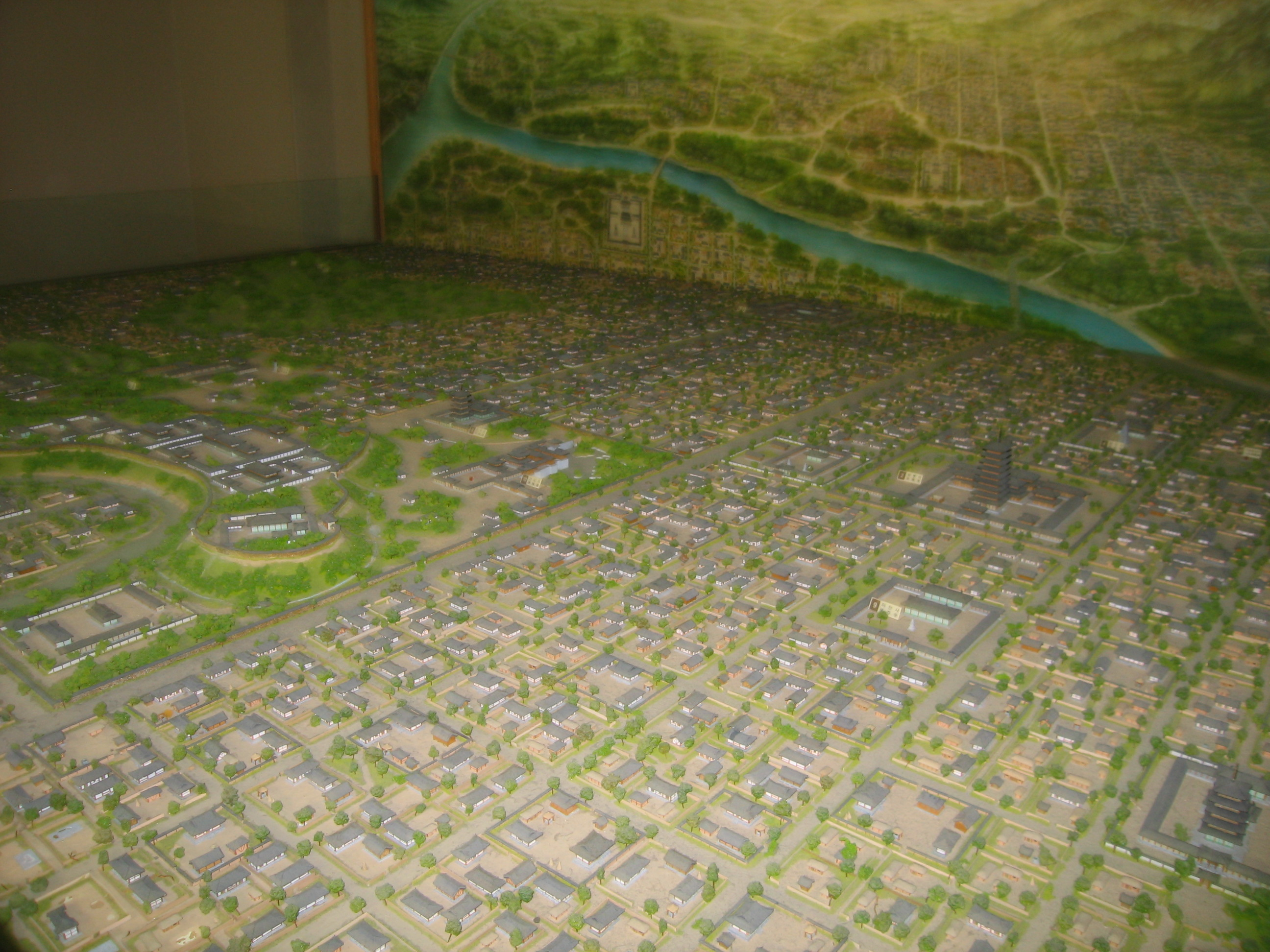 A model of Old Gyeongju, the capital of Silla and Unified Silla. The Hwangnyongsa Temple pagoda is the tallest structure seen.